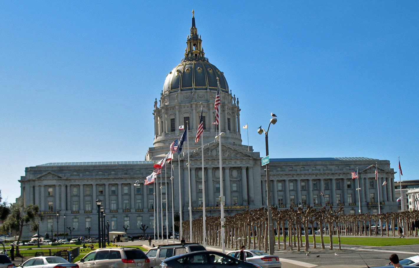 National Register of Historic Places in San Francisco, California. San Francisco City Hall, 1 Goodlett Place, San Francisco, California, USA. Photographed 2008-03-02 by Mike Hofmann from the northwest corner of the San Francisco Main Library. The building is among the sites in the San Francisco Civic Center Historic District.